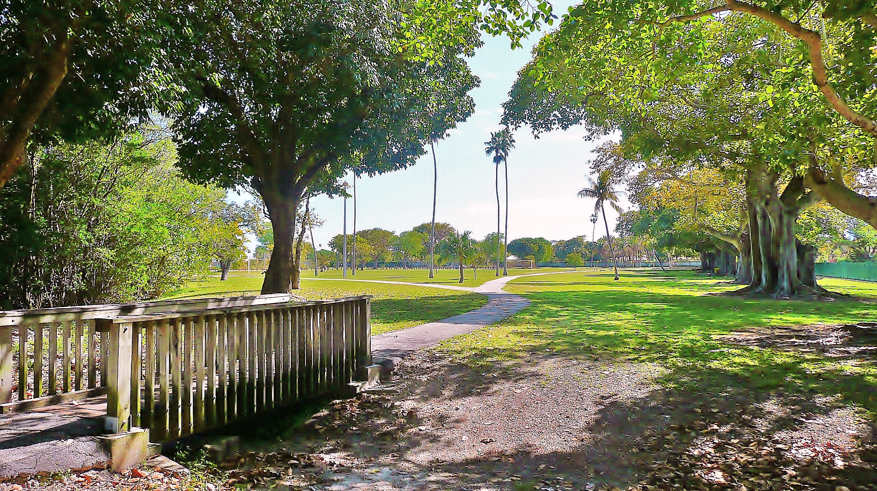 Digital photo taken by Marc Averette. Morningside Park in the Upper Eastside neighborhood of Miami, Florida, United States.